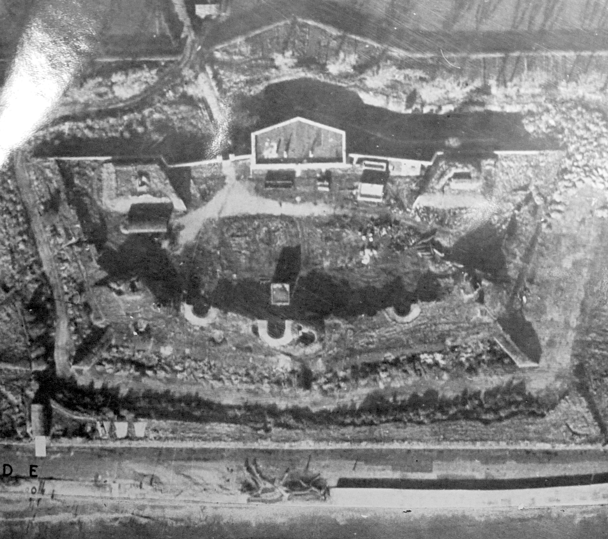 Photo of lumps fort taken by the RAF in 1945. The blown highlight to the upper left is a copying error and not on the original